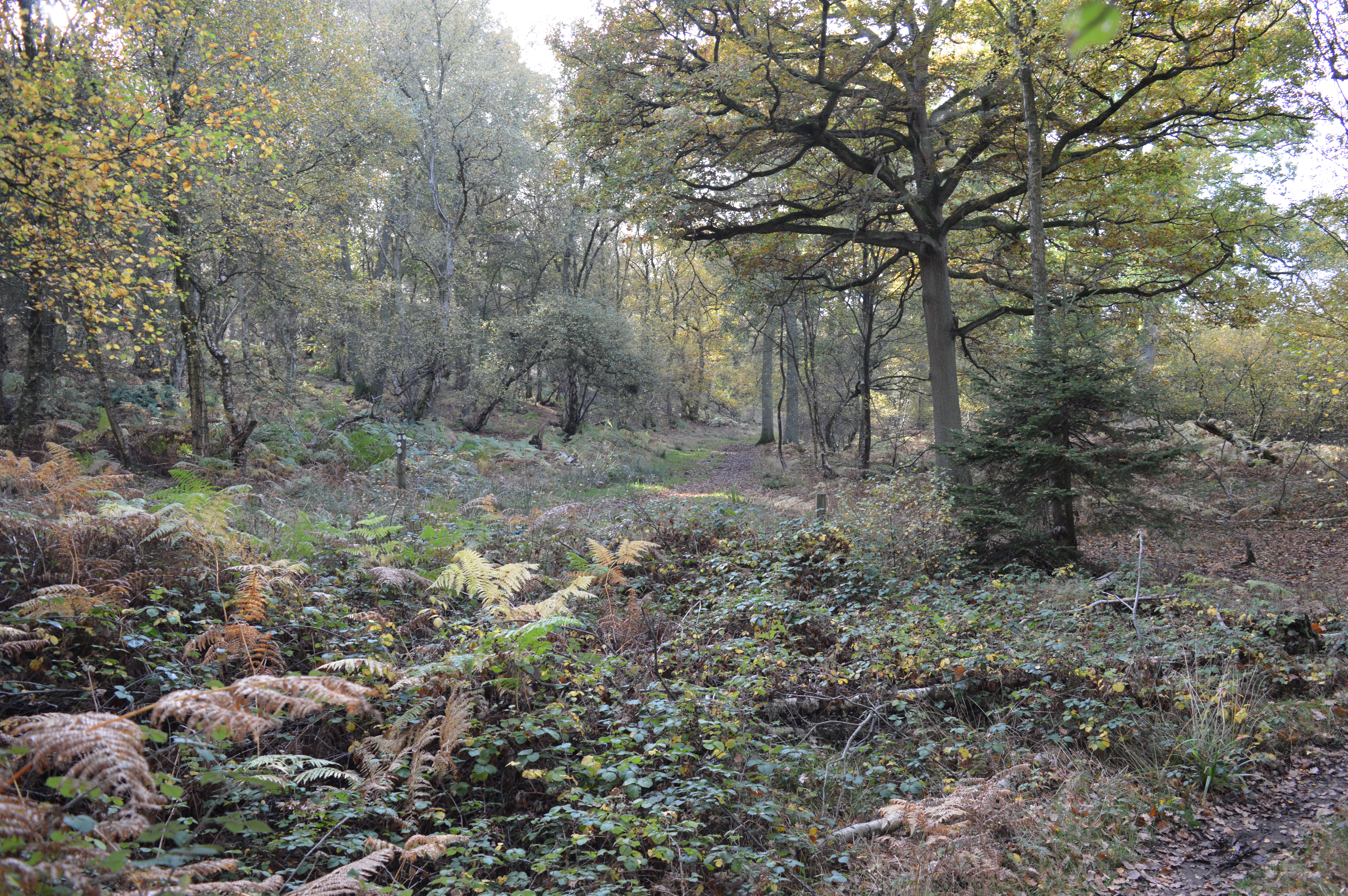 King's Wood, a Site of Special Scientific Interest and National Nature Reserve in Heath and Reach, Bedfordshire. It is managed by the Wildlife Trust for Bedfordshire, Cambridgeshire and Northamptonshire